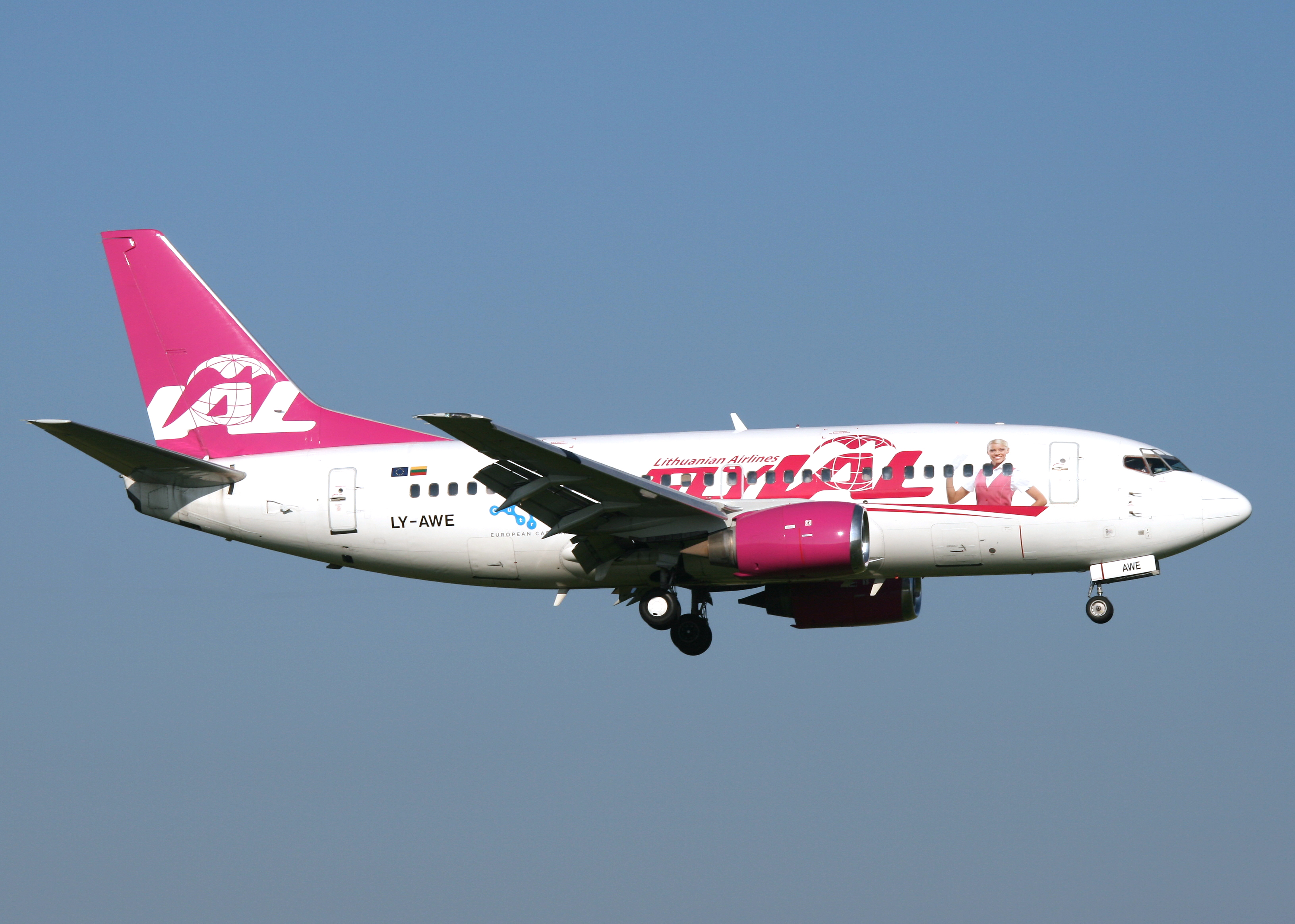 Ams / Eham 24-07-08